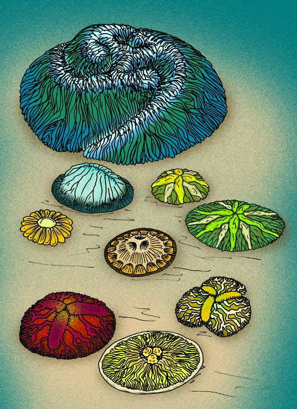 Various trilobozoans from the Precambrian of Southern Australia. At top is Tribrachidium heraldicum, the most famous trilobozoan. Below it, starting from the left, is the flower-like Lorenzinites rara, the mound-like Wigwamiella enigmatica, Rugoconites enigmatica, and its sister species, R. tenuirugosus, the nominally Russian Albumares brunsae, which is better known from the White Sea, the cookie-like Hallidaya brueri, the other primarily Russian trilobozoan Anfesta stankovskii, and Skinnera brooksi, at center. Tribrachidium heraldicum Lorenzinites rara Wigwamiella enigmatica, Rugoconites enigmatica Rugoconites tenuirugosus Albumares brunsae Hallidaya brueri Anfesta stankovskii Skinnera brooksi